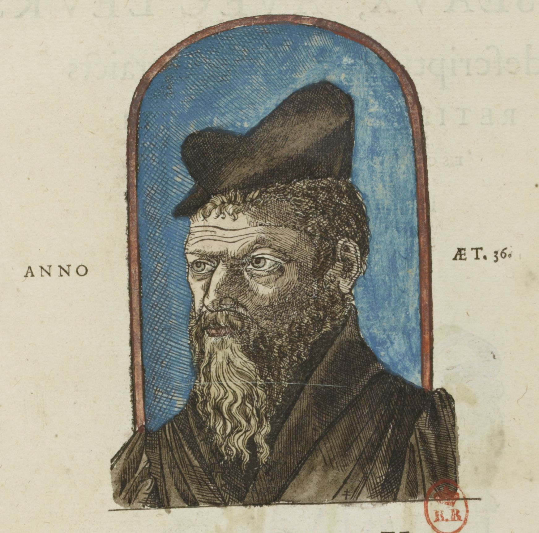 Portrait of Pierre Belon du Mans from reverse of title page of his L'Histoire de la nature des oyseaux, hand-coloured copy, BNF